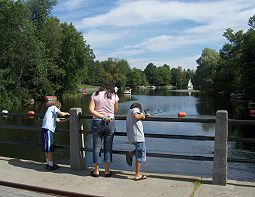 Fishing at Watson's Mill Dam on the Rideau Waterway